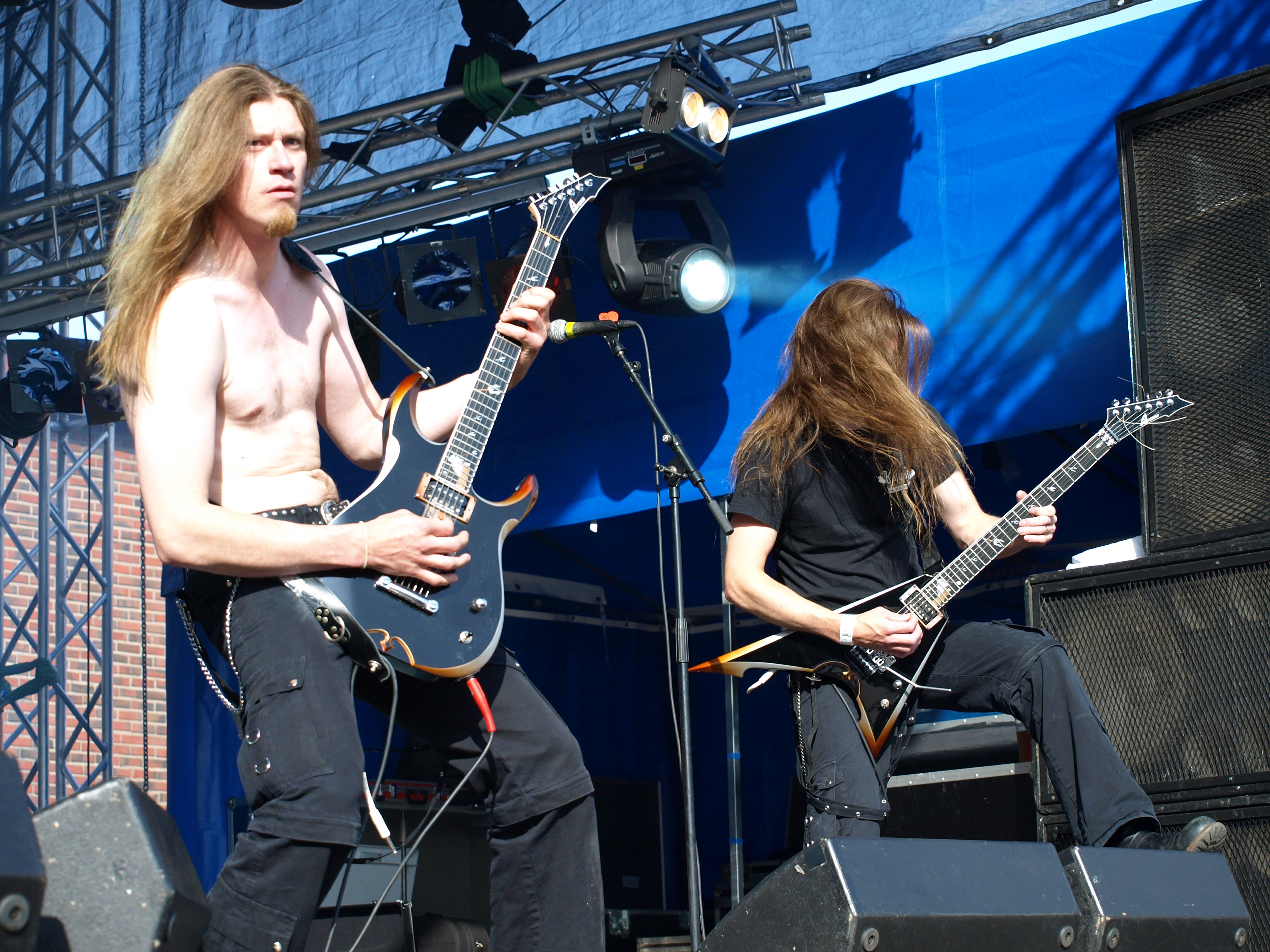 Finnish melodic death metal band Kalmah live at Jalometalli 2008 in Oulu.